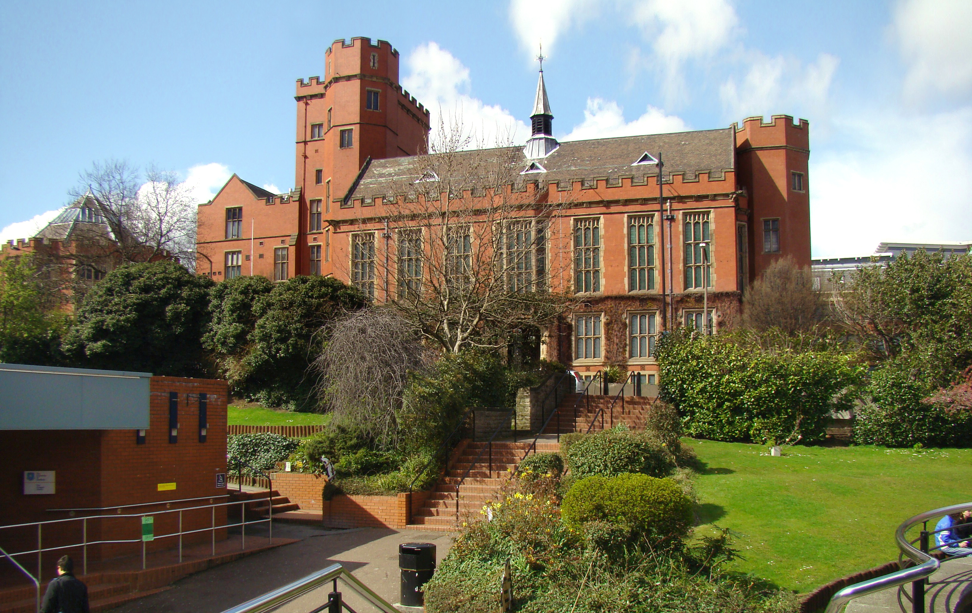 Firth Court, built in 1905, is the main administrative centre for the University of Sheffield, England.